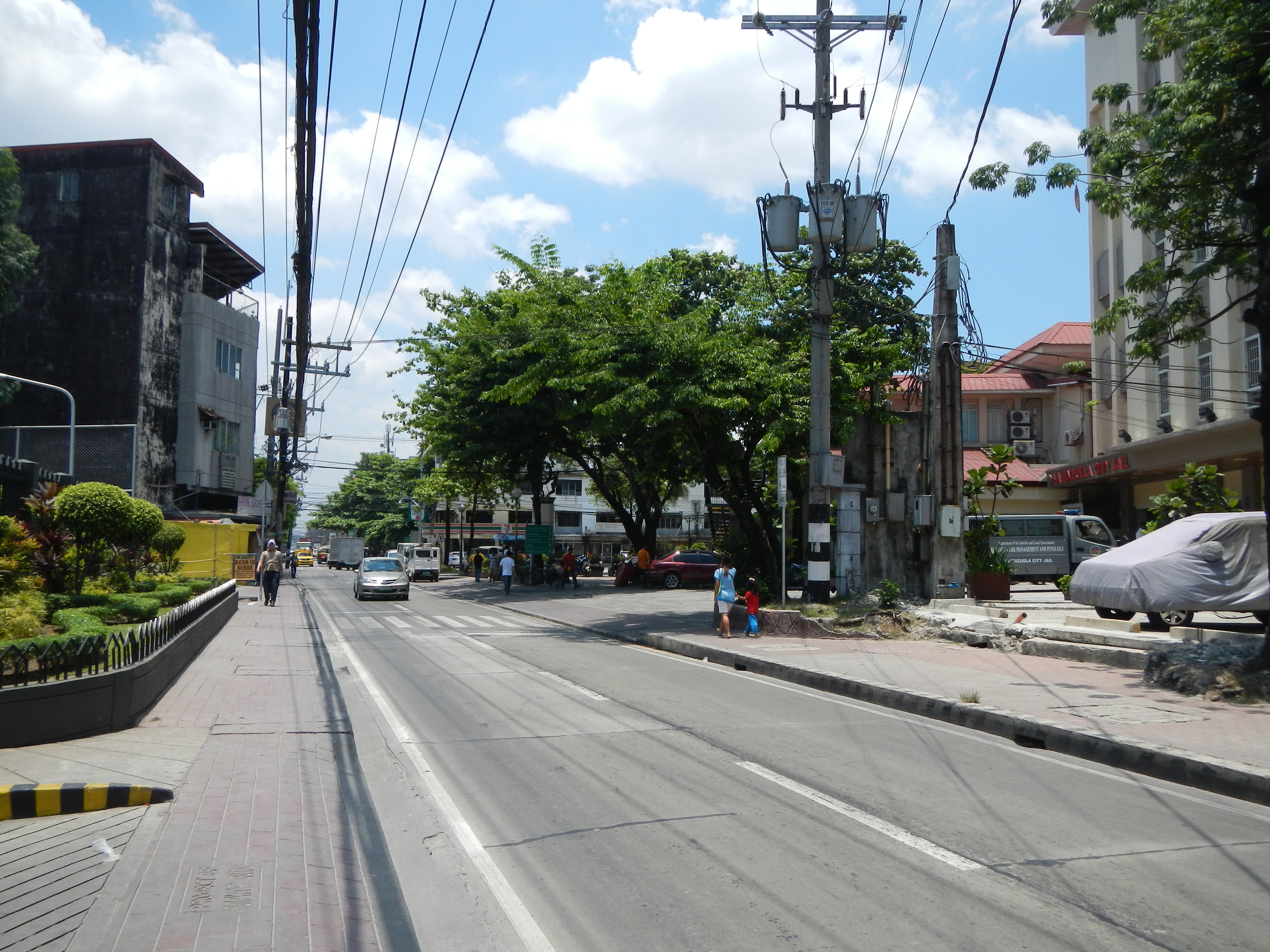 Valenzuela City: The Valenzuela City Marker and Sculpture, Old City Hall now Halls of Justice including the Pamantasan ng Lungsod ng Valenzuela is beside Valenzuela City Convention Center and Valenzuela City Jail in front of the Church of Jesus Christ of Latter-day Saints, Barangay Maysan, Valenzuela City (Valenzuela, Lists of barangays in Philippine cities and municipalities, List of barangays in Valenzuela).